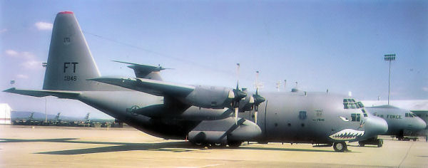 "Flying Tiger" C-130 of the 41st Airlift Squadron / 23d Wing - Pope AFB, North Carolina Source: United States Air Force Historical Research Agency - Maxwell AFB, Alabama